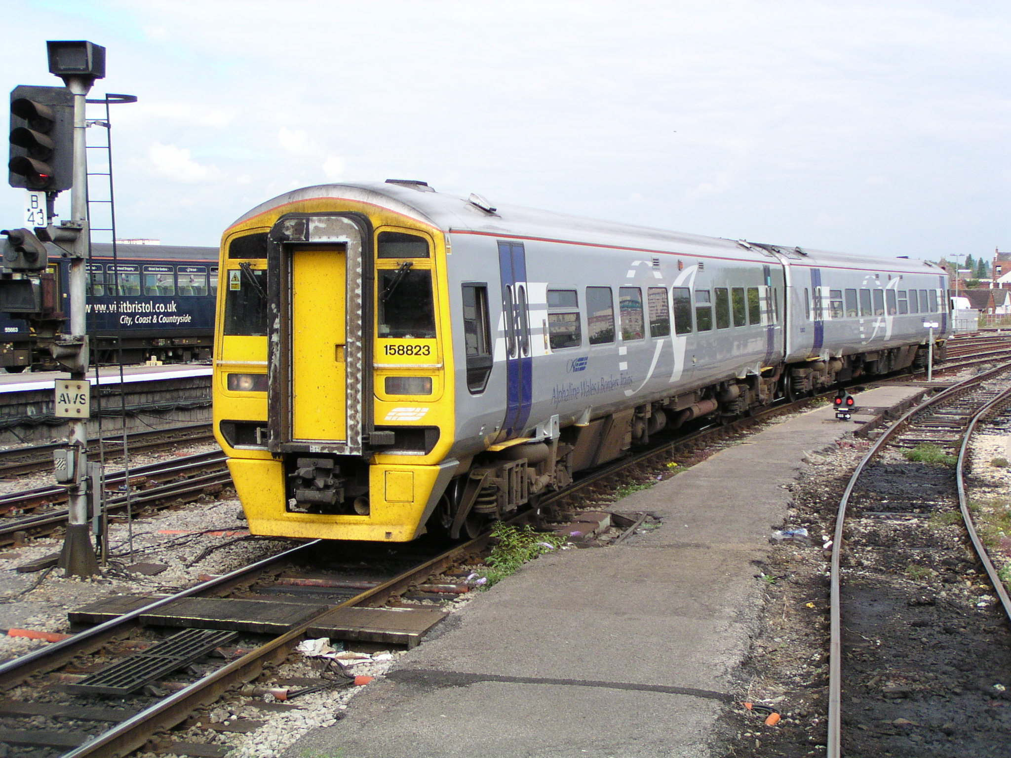 This image was copied from (Image:158823 at Bristol Temple Meads.JPG). The original description was: ---- BR Class 158, no. 158823 at Bristol Temple Meads on 3rd September 2003.